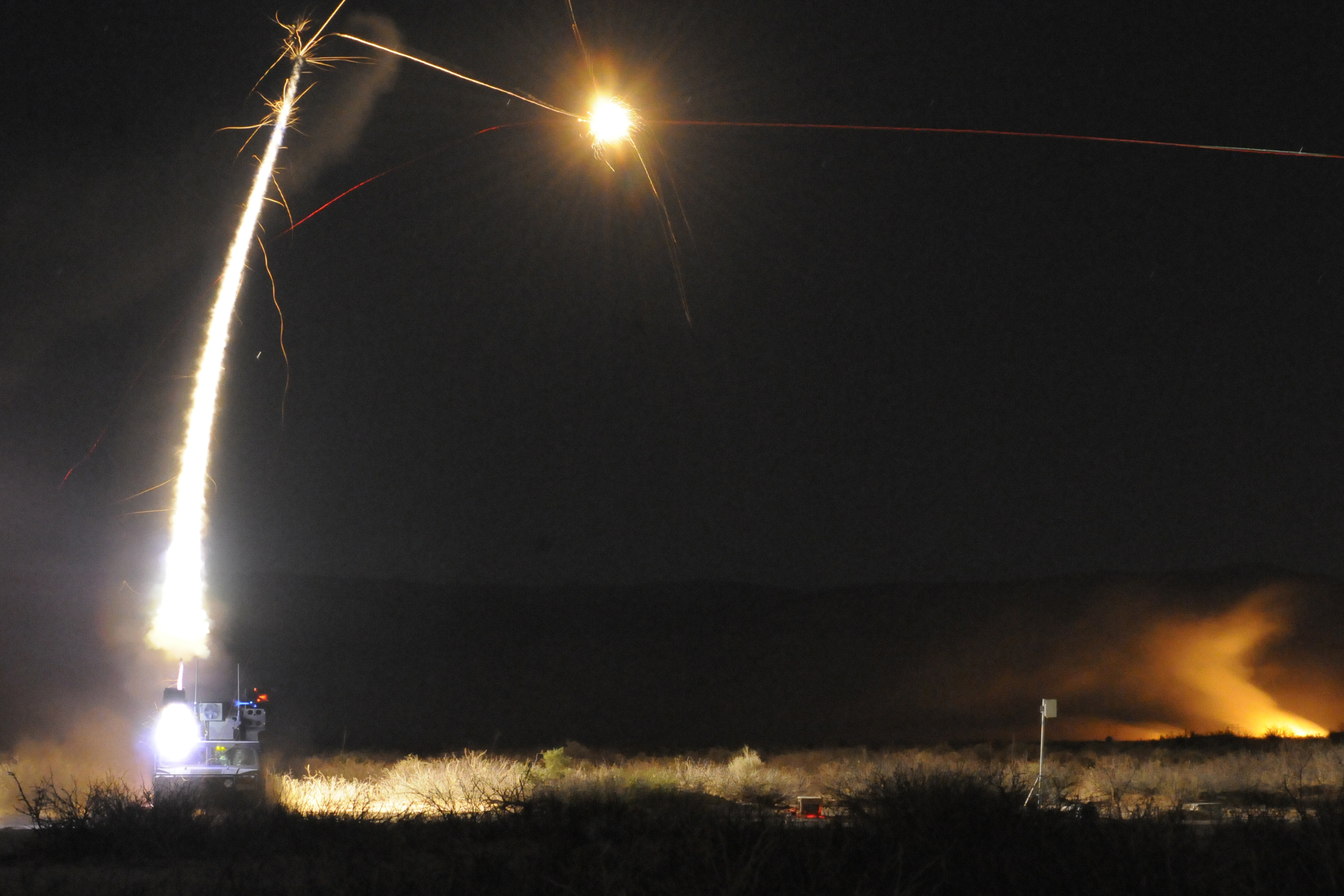 An Avenger missile system takes out a drone in the night skies over Fort Bliss, Texas. Soldiers from the South Carolina National Guard’s 263rd Army Air and Missile Defense Command and the 2nd Battalion, 263rd Air Defense Artillery, both from Anderson, S.C., used these drones as targets during a live-fire exercise at Fort Bliss April 5-9 in preparation for deployment to the National Capital Region. Their mission is to protect the skies over the nation's capital from aerial threats. (U.S. Army National Guard photo by Sgt. Brad Mincey/Released)